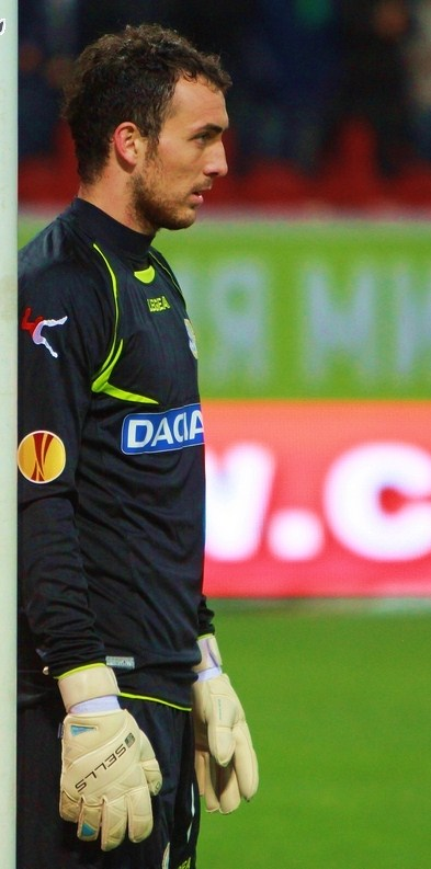 Željko Brkić